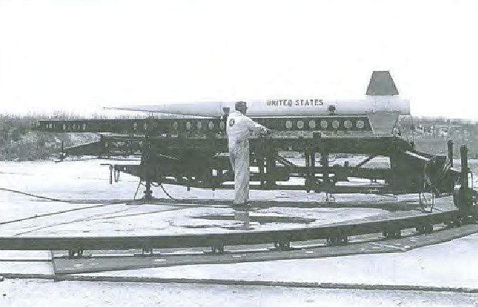 Nike Smoke rocket being inspected before launch.